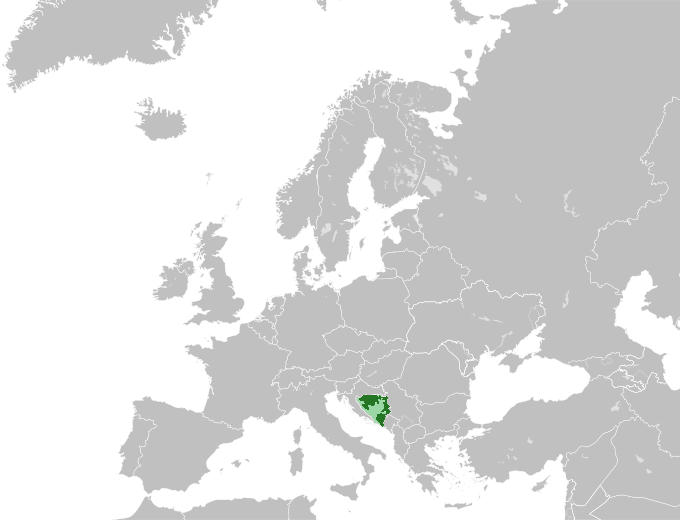 I wanted to create a similar map as exists for many countries/subdivisions in Europe for Republika Srpska.